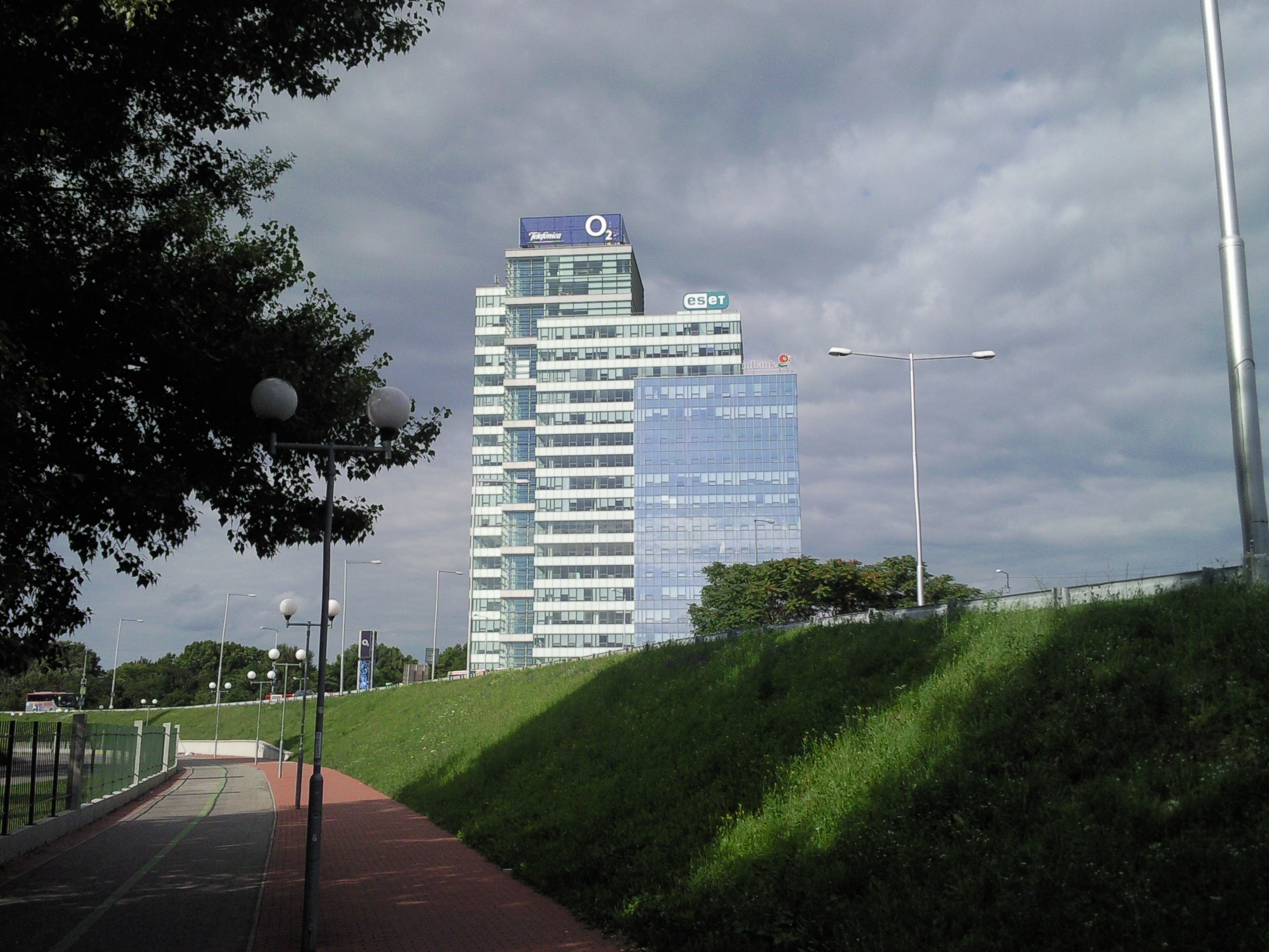 Aupark Tower, Bratislava